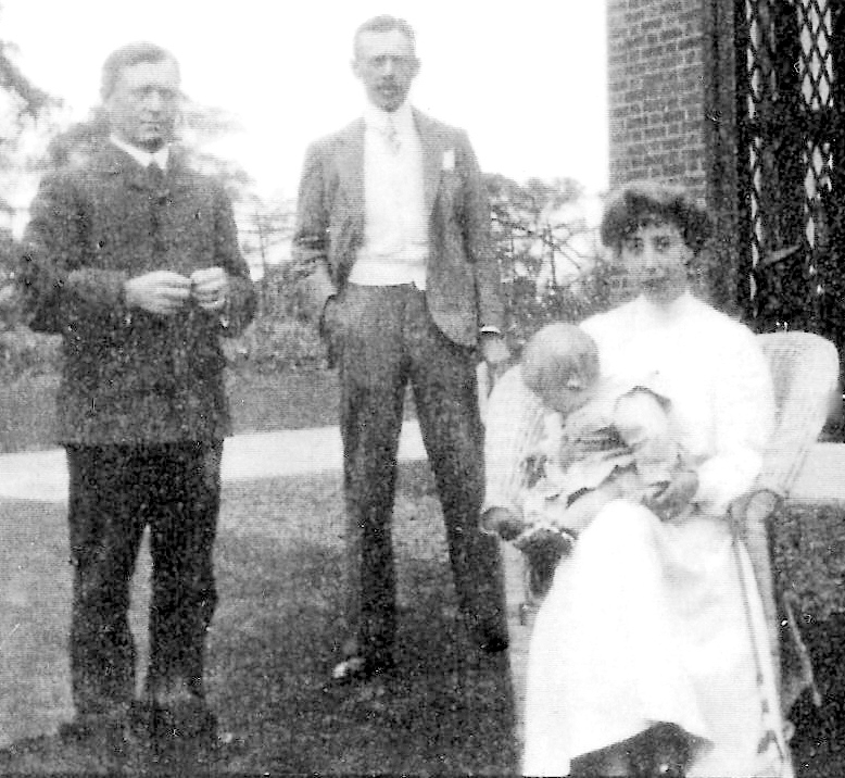 Frederick Russell Burnham (1861-1947), Mather Howard Burnham (1870-1917), Constance Newton Burnham (wife of Howard), and baby Fred (1904–1959), England, c1904